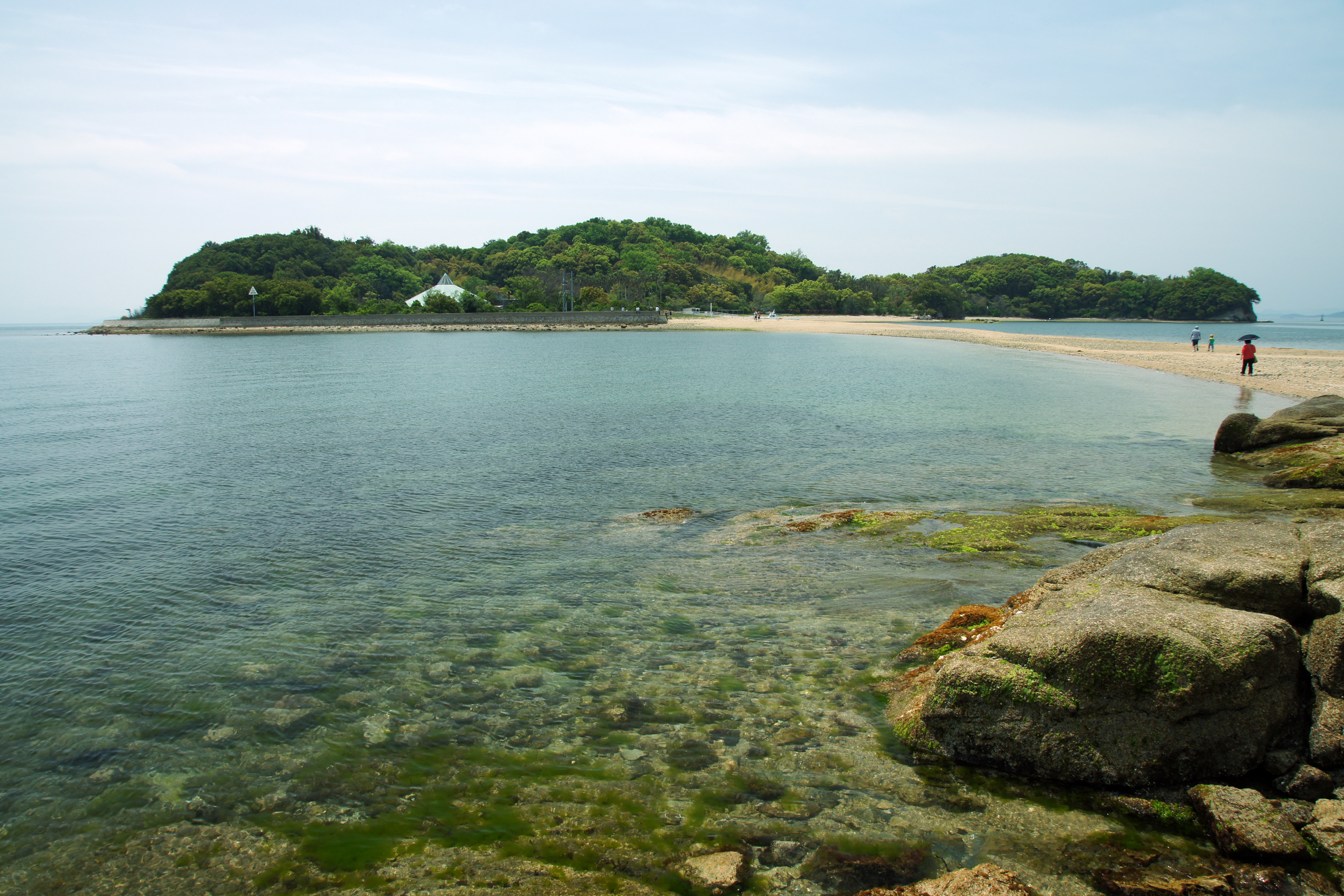 The Angel_Road of Shōdo Island, Tonosho, Kagawa prefecture, Japan